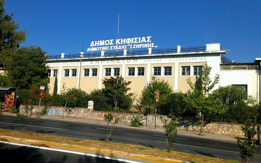 zirineio